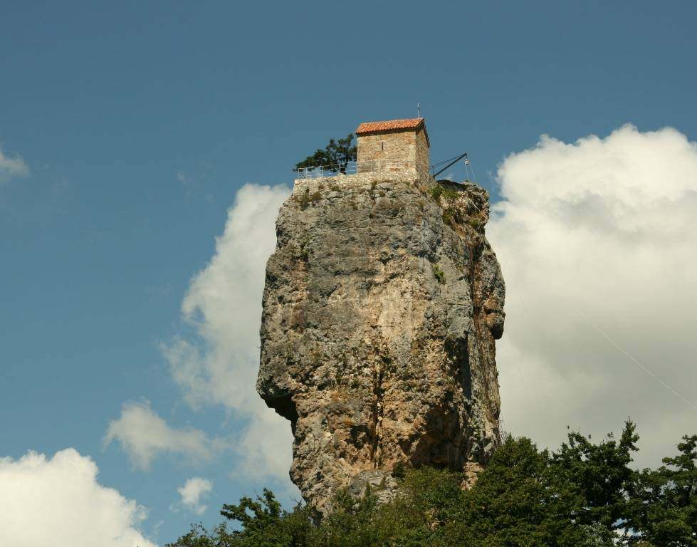 Katskhi column